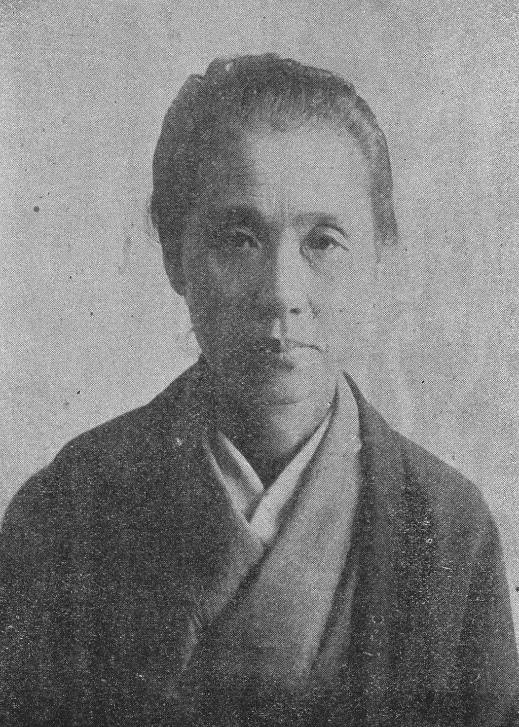 Portrait of Ogino Ginko (荻野吟子, 1851 – 1913)